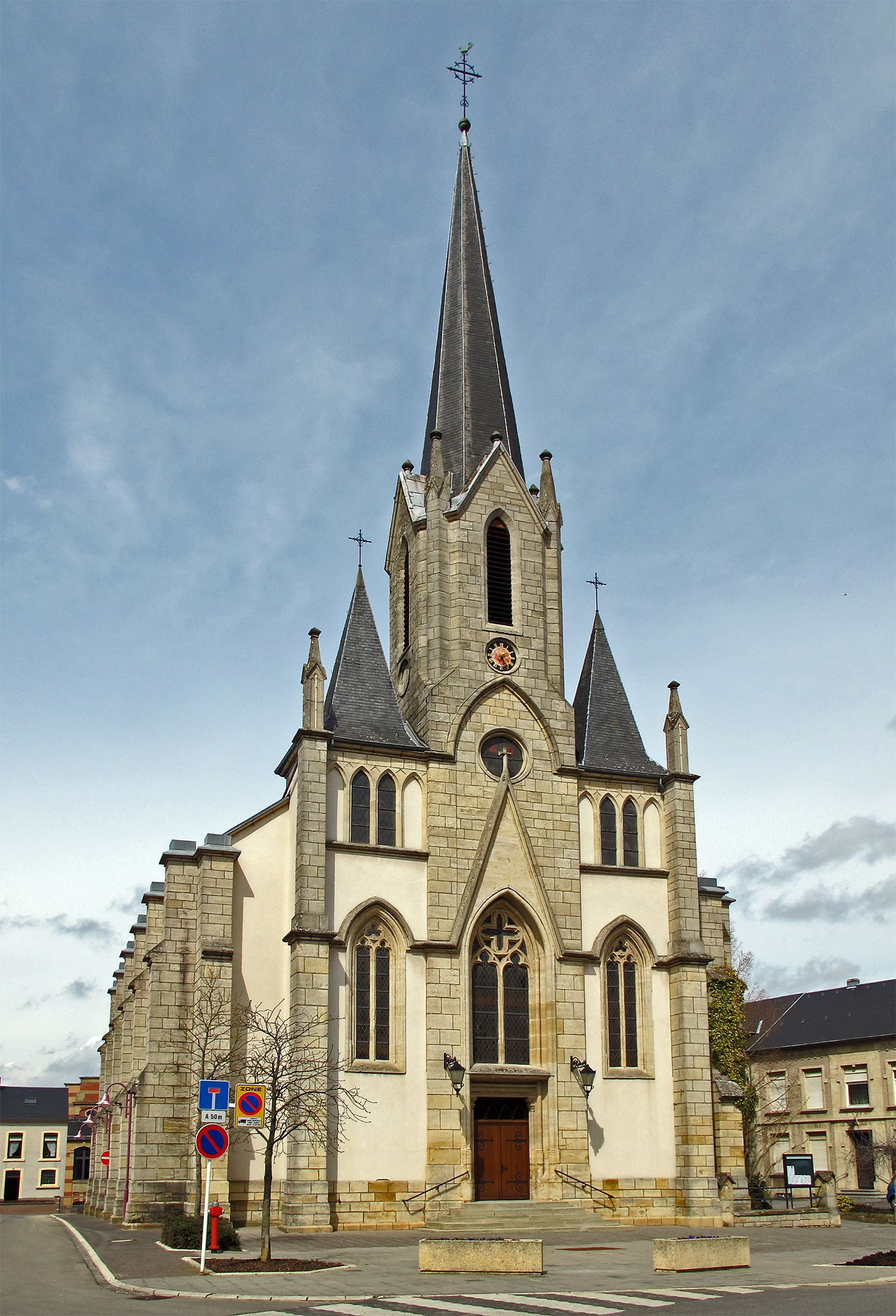 Church of Rodange, Luxembourg